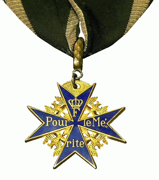 Prussain Pour le Mérite with oak leaves 1914 (Blue Max)